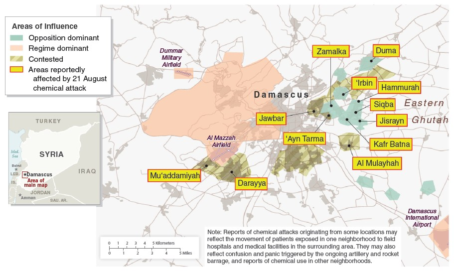 A map published by the US Government showing the extent of chemical attacks 21 August 2013 in Ghouta, Damascaus, Syria